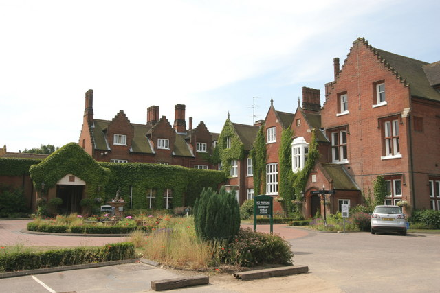 Sprowston Manor. Sprowston Manor situated in Sprowston Park, next to Sprowston Park Golf Club, owned and run by the Marriott Hotels Group.